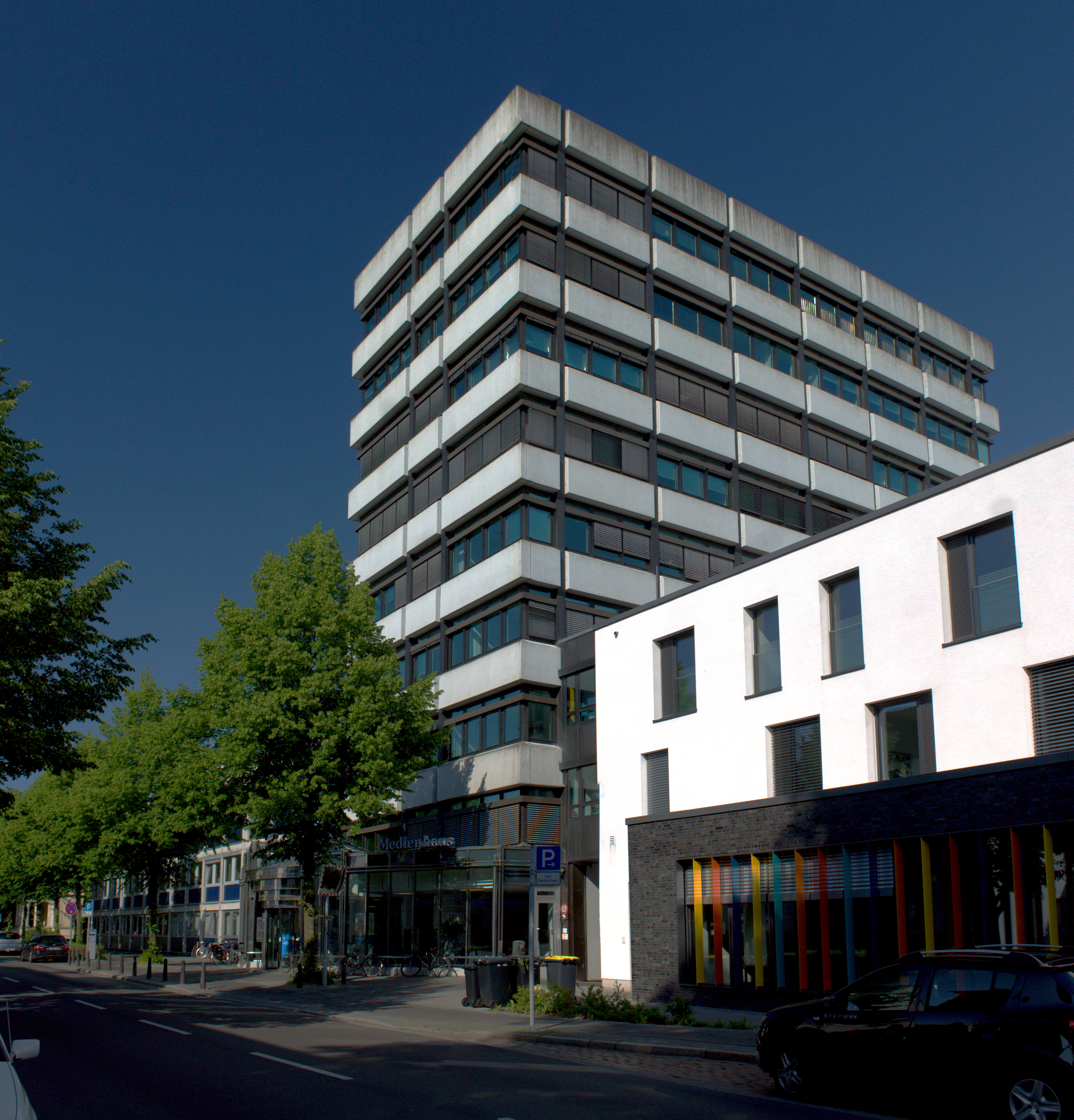 The headquarters of the Nordwest-Zeitung, a local newspaper based in Oldenburg, Lower Saxony, Germany.